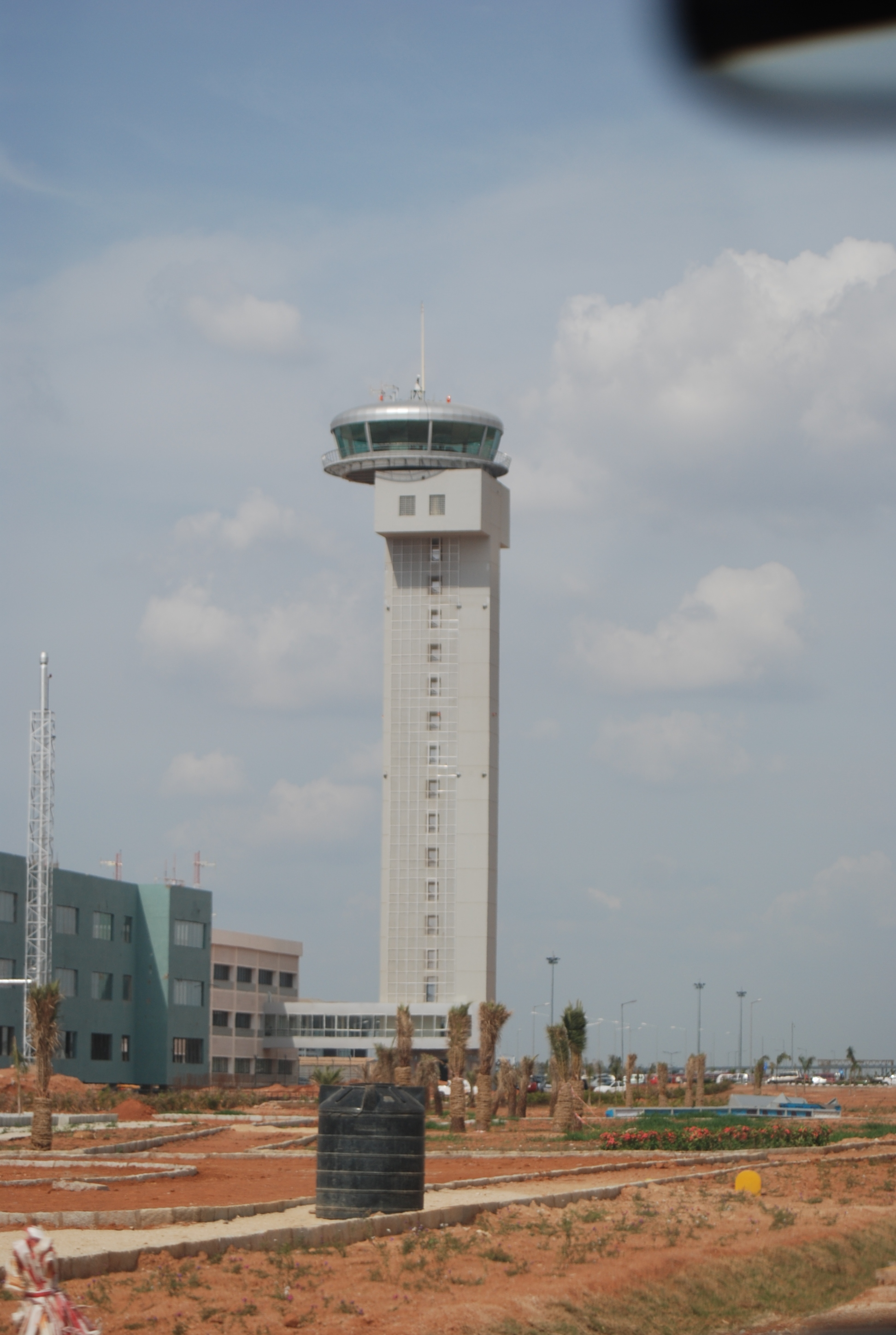 Bangalore Airport control tower